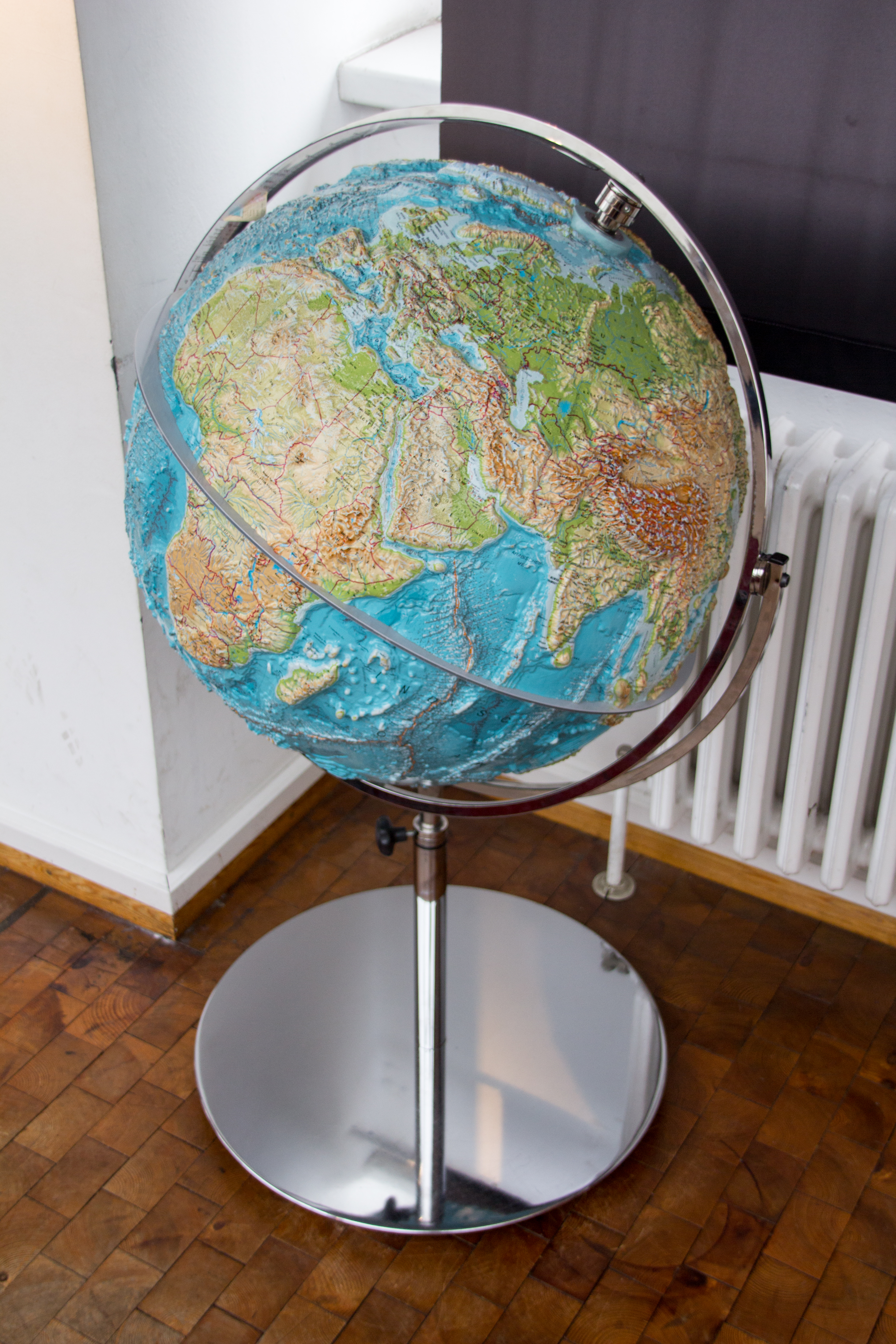 German Museum of Technology, Berlin, Germany.